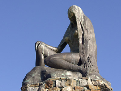 Loreley